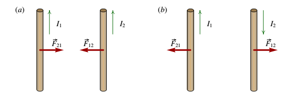 Força entre condutores com corrente